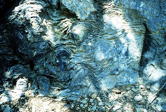 Stromatolites, that is pre-cambrian petrified biofilm about one billion years old in the Siyeh rock formation of Glacier National Park, Montana, USA.Original caption: Close-up of PreCambrian stromatolites in Siyeh Formation, Going to the Sun Highway. Glacier National Park